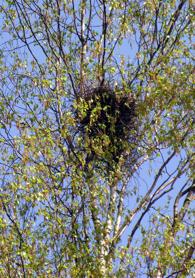 Rook (bird) nest